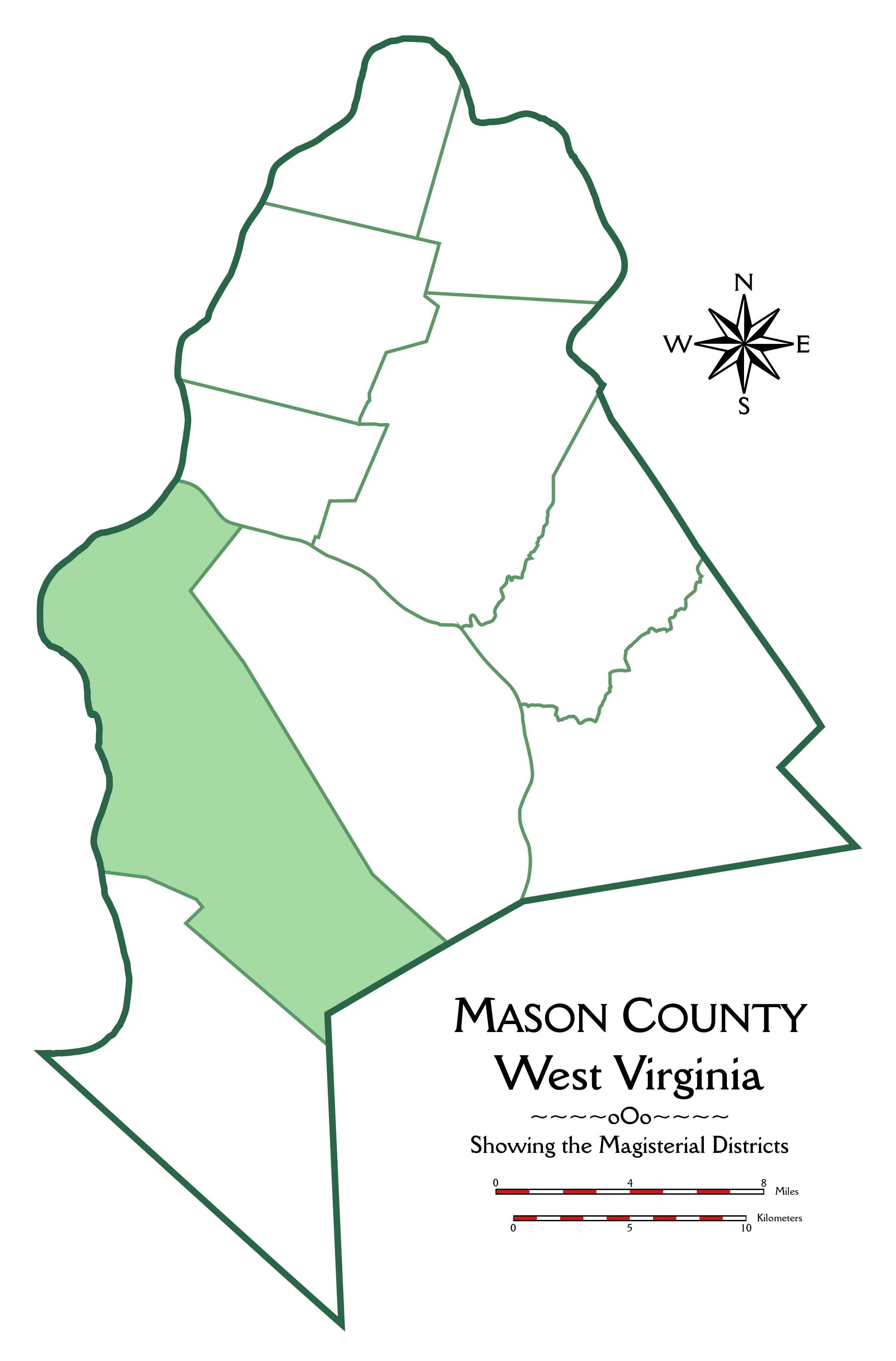 This is an outline map of Mason County, West Virginia, showing the boundaries of the magisterial districts. Clendenin District is highlighted.